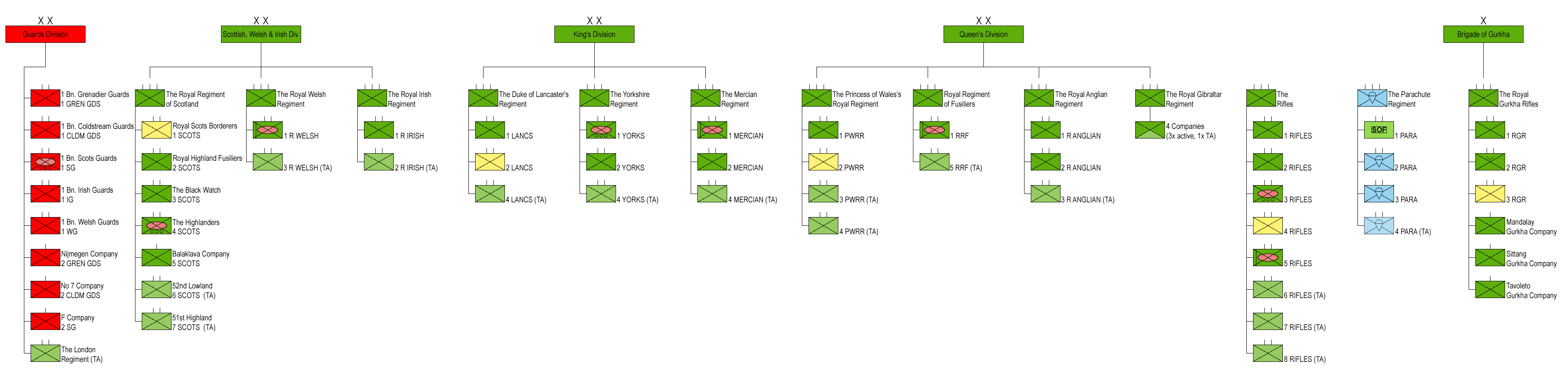 Organization of the British Army Infantry after the Army 2020 Refine reform